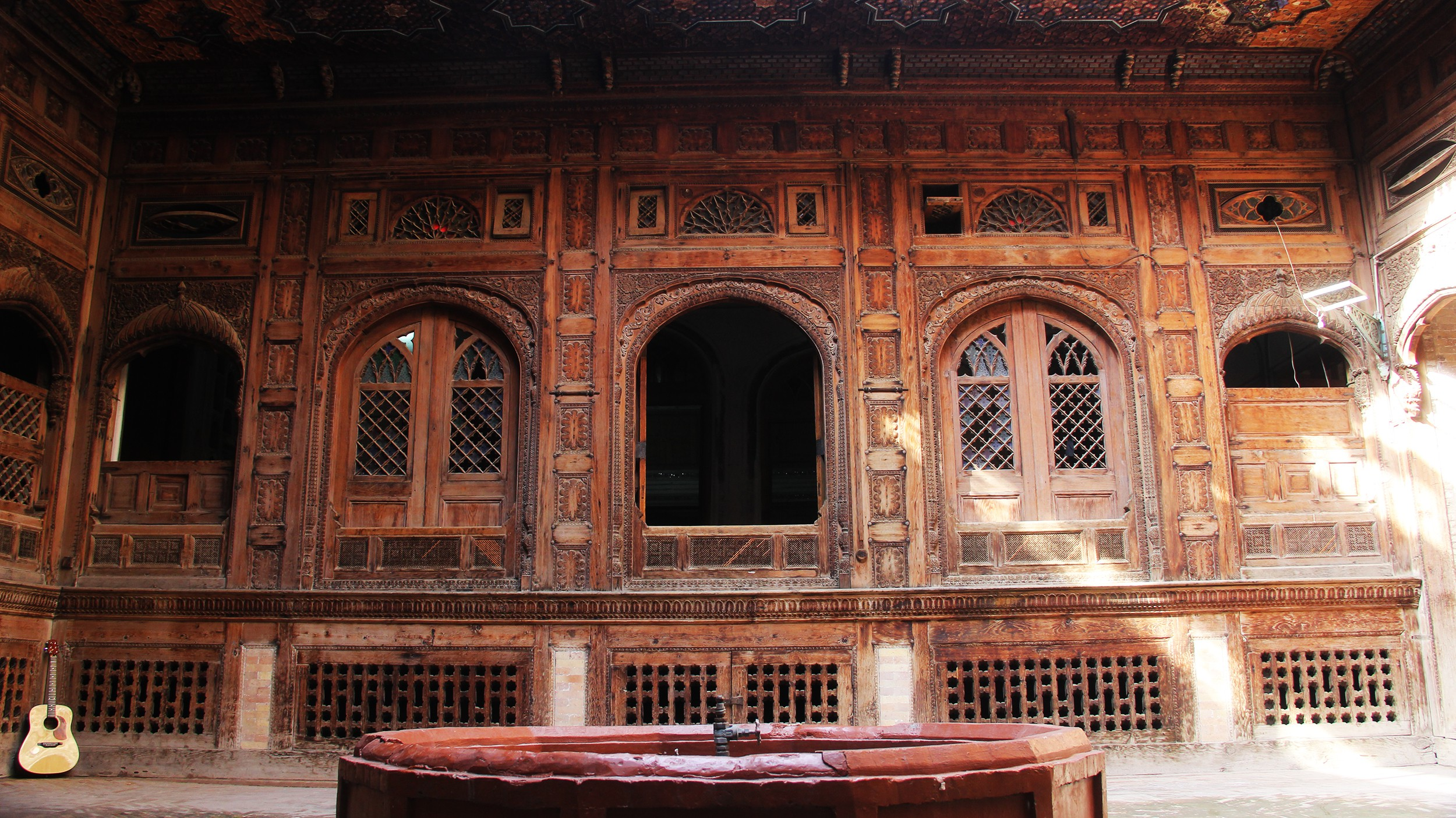 Sethi House Complex This is a photo of a monument in Pakistan identified as the KPK-Z7